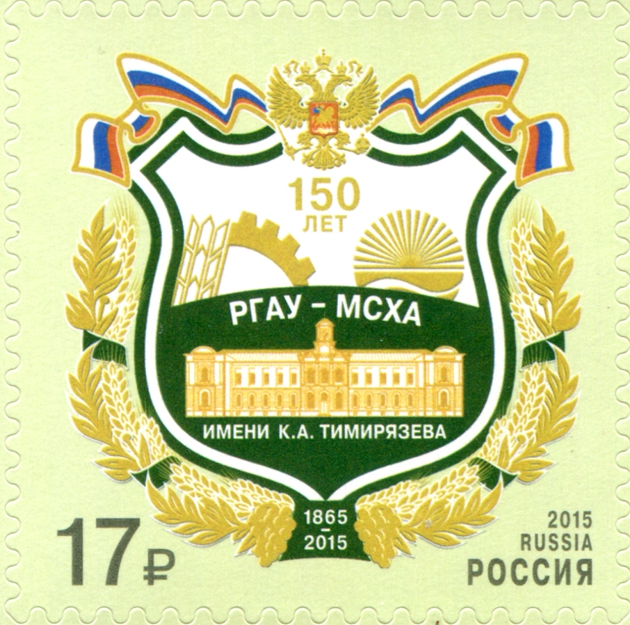 150th Anniversary of the Foundation of Russian Timiryazev State Agrarian University